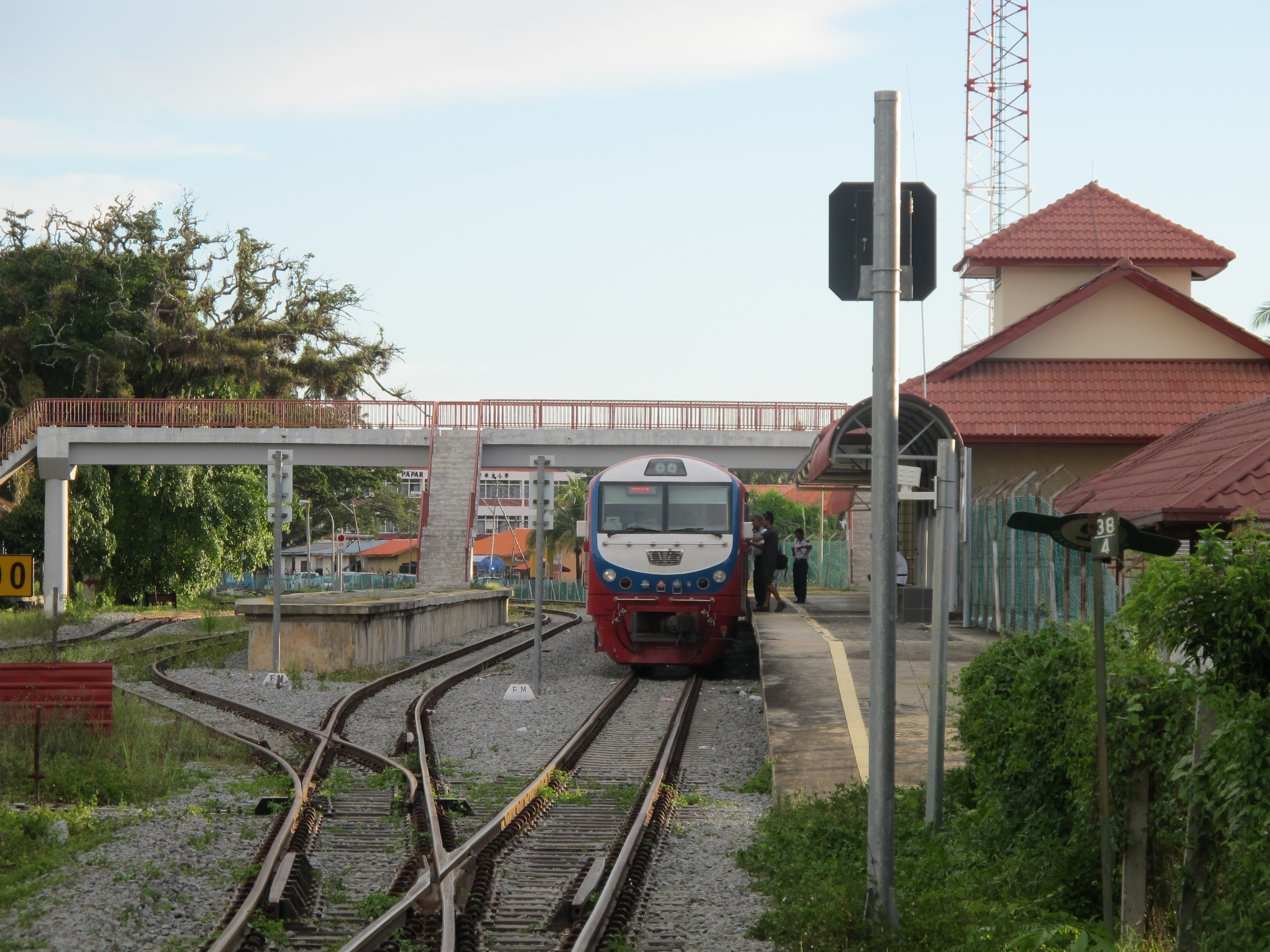 Station Papar of the Sabah State Railway. Photo taken in direction of Station Beaufort